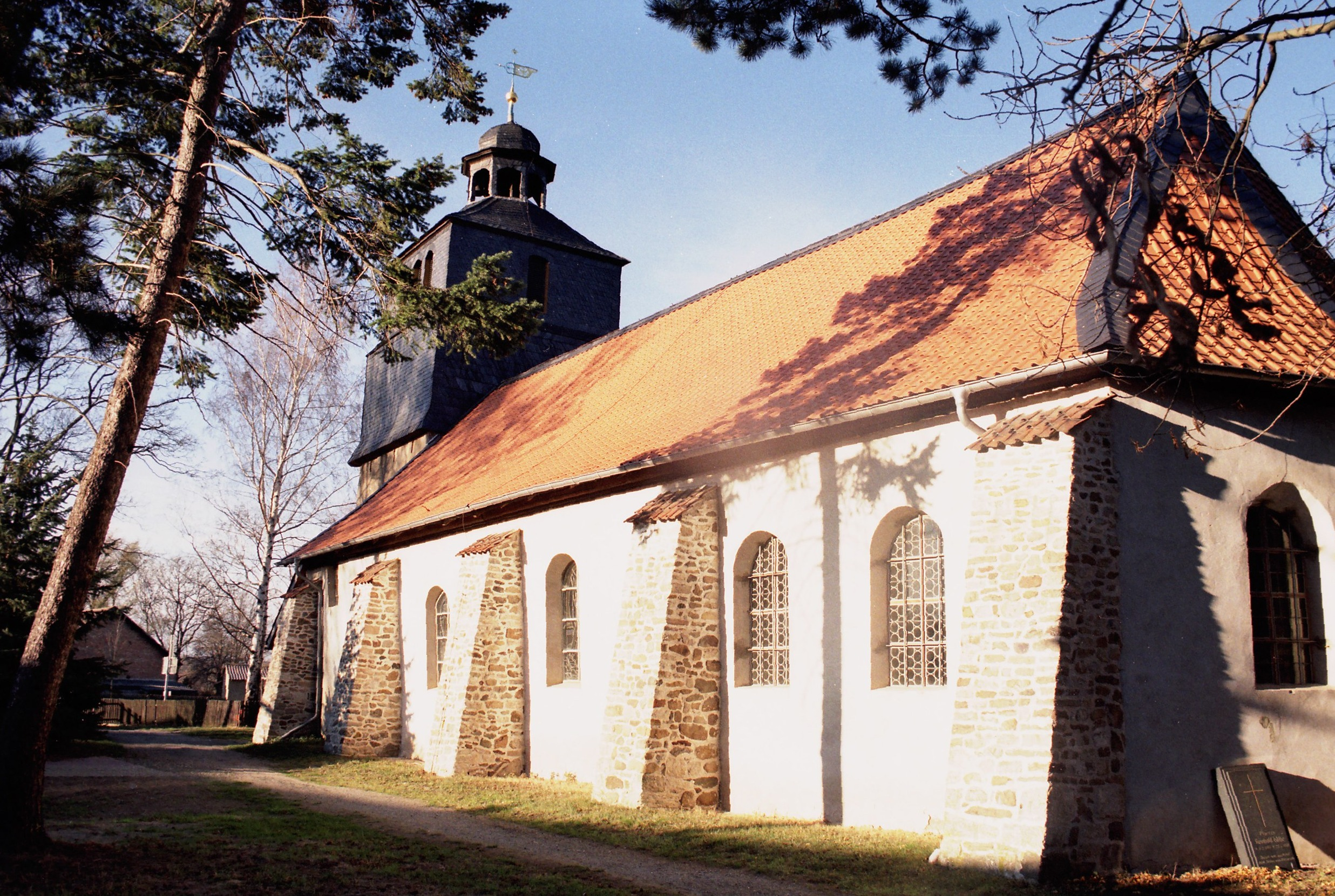 Abbenrode, the church Saint Andrew